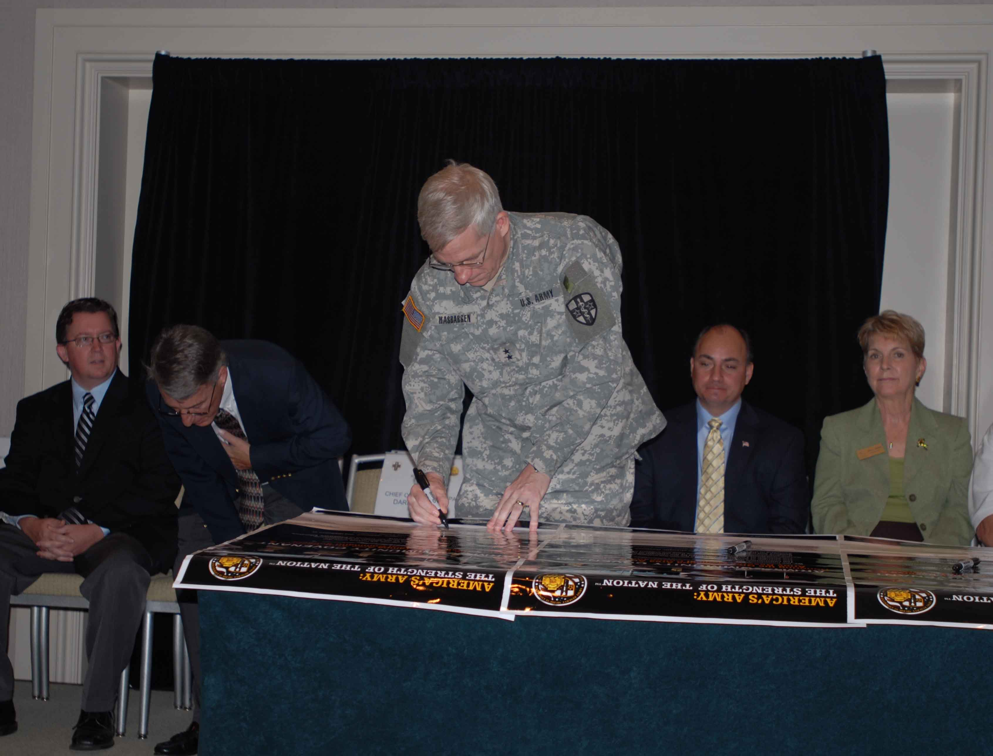 Maj. Gen. James A. Hasbargen, Commanding General of the Army Reserve Medical Command, Pinellas Park signs the Army Community Covenant during a ceremony held in Tampa. Seated to the right behind Maj. Gen. Hasbargen is the President and CEO of CWU, Inc, Charles L. Jenkins, a retired Special Forces Medic and local business owner.